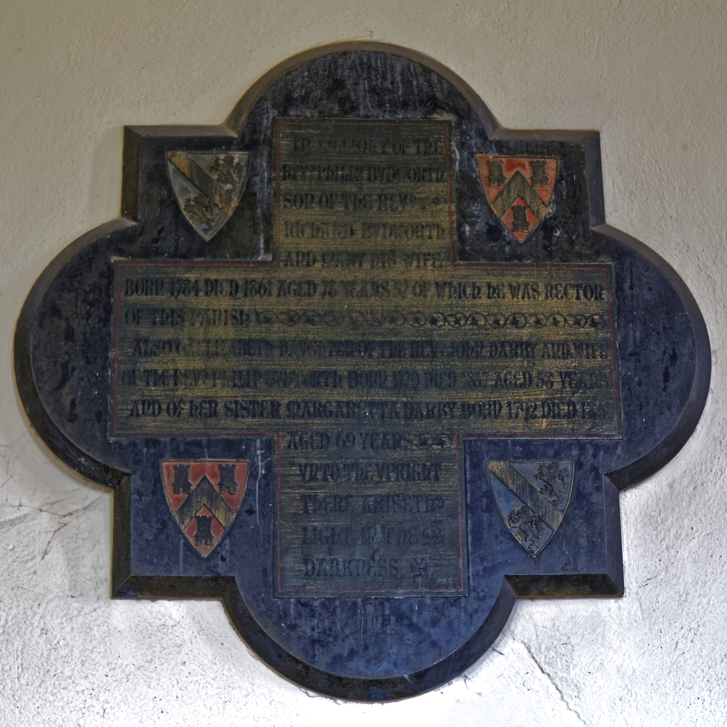 Slate and brass barbed quatrefoil wall memorial tablet to Rev Philip Budworth (1784-1861), parish rector for 52 years, his wife Elizabeth (1779-1837), daughter to Rev John Darry, and her sister, Margaretta (1792-1861), in All Saints Church at High Laver, Essex, England.Camera: Canon EOS 6D with Canon EF 24-105mm F4L IS USM lens.Software: RAW file lens-corrected, optimized and downsized with DxO OpticsPro 11 Elite, Viewpoint 2, and Adobe Photoshop CS2.